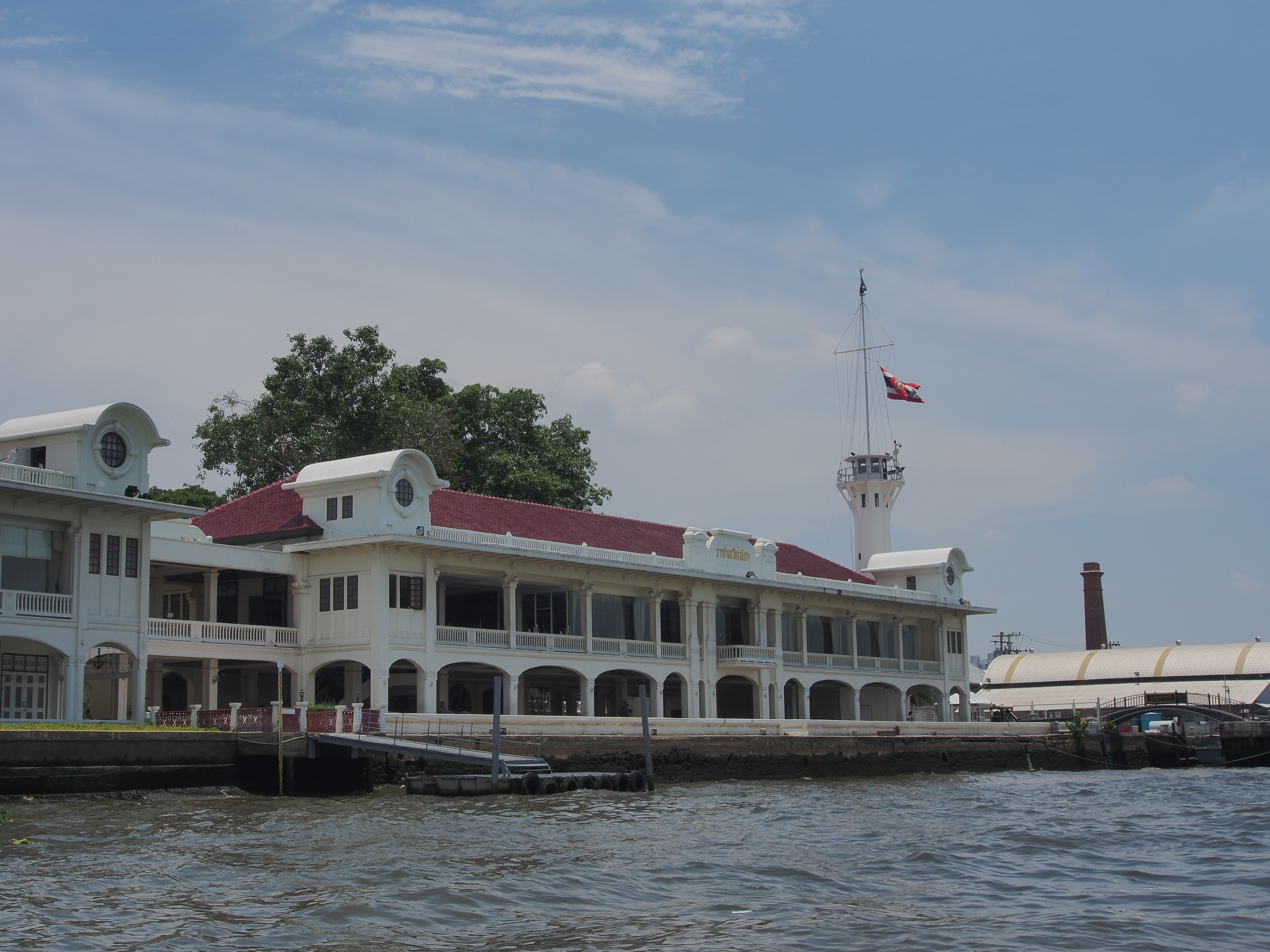 Wat Arun, the most iconic temple of Bangkok is located on Thonburi side of Bangkok, almost opposite to the Grand Palace and Wat Pho. Built during seventeenth century on the bank of the Chao Phraya river, its full name 'Wat Arun Ratchawararam Ratchawaramahawihan' is rather hard to remember so it is often called 'Temple of Dawn. The distinctive shape of Wat Arun consists of a central 'Prang' (a khmer style tower) surrounded by four smaller towers all incrusted with faience from plates and potteries. The stairs to reach a balcony on the main tower are quite steep, usually easier to climb up than to walk down, but the view from up there is really worth it.